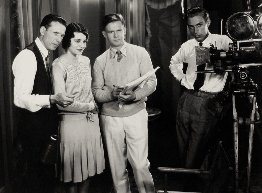 L. to R. : Frank R. Strayer (director), Ruth Elder (actress), Linton Wells (screenwriter) & Edward Cronjager (cinematographer) on the set of Moran of the Marines - publicity still